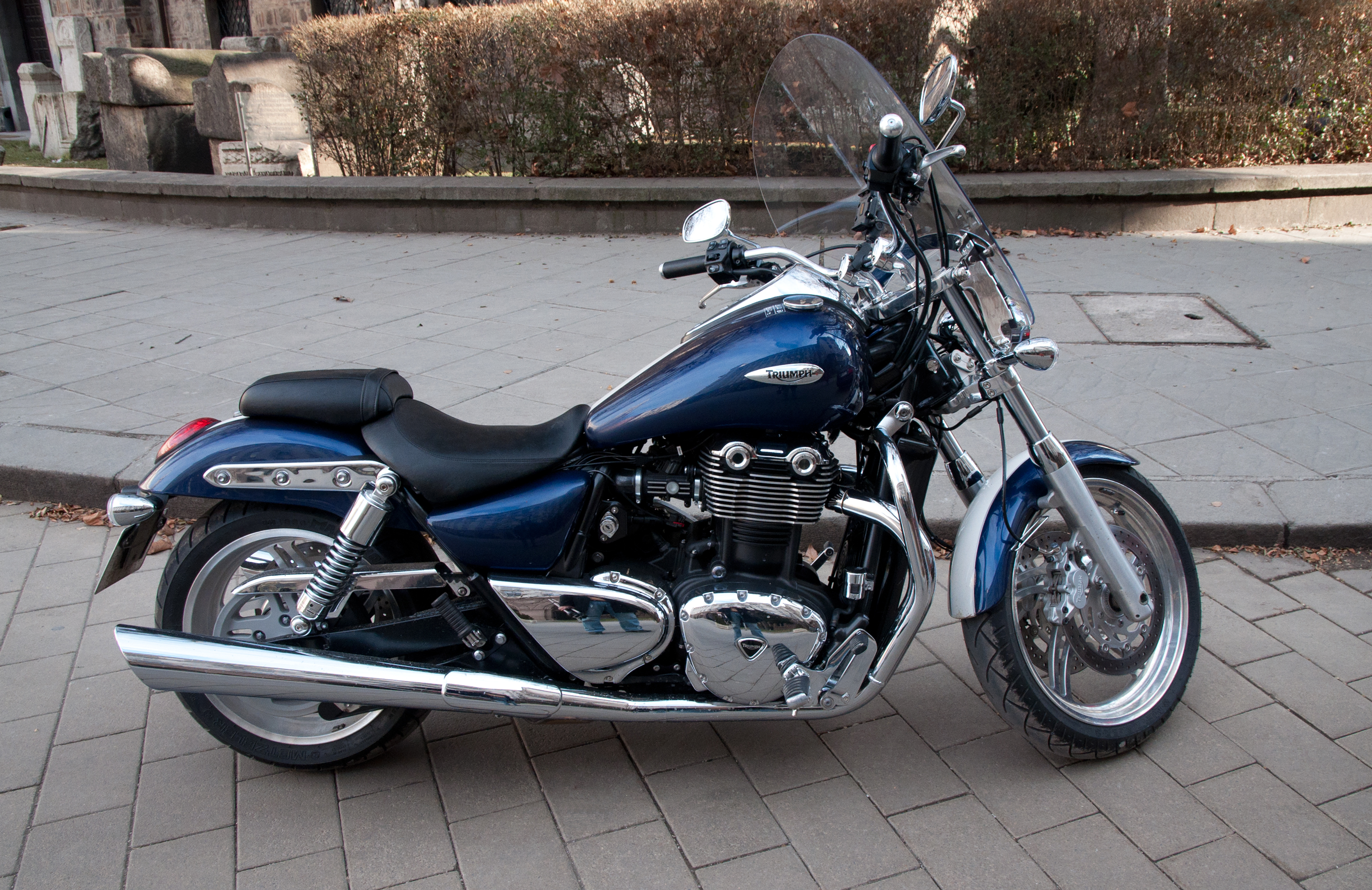 Triumph Thunderbird 1600 introduced by Triumph Motorcycles Ltd in 2009.